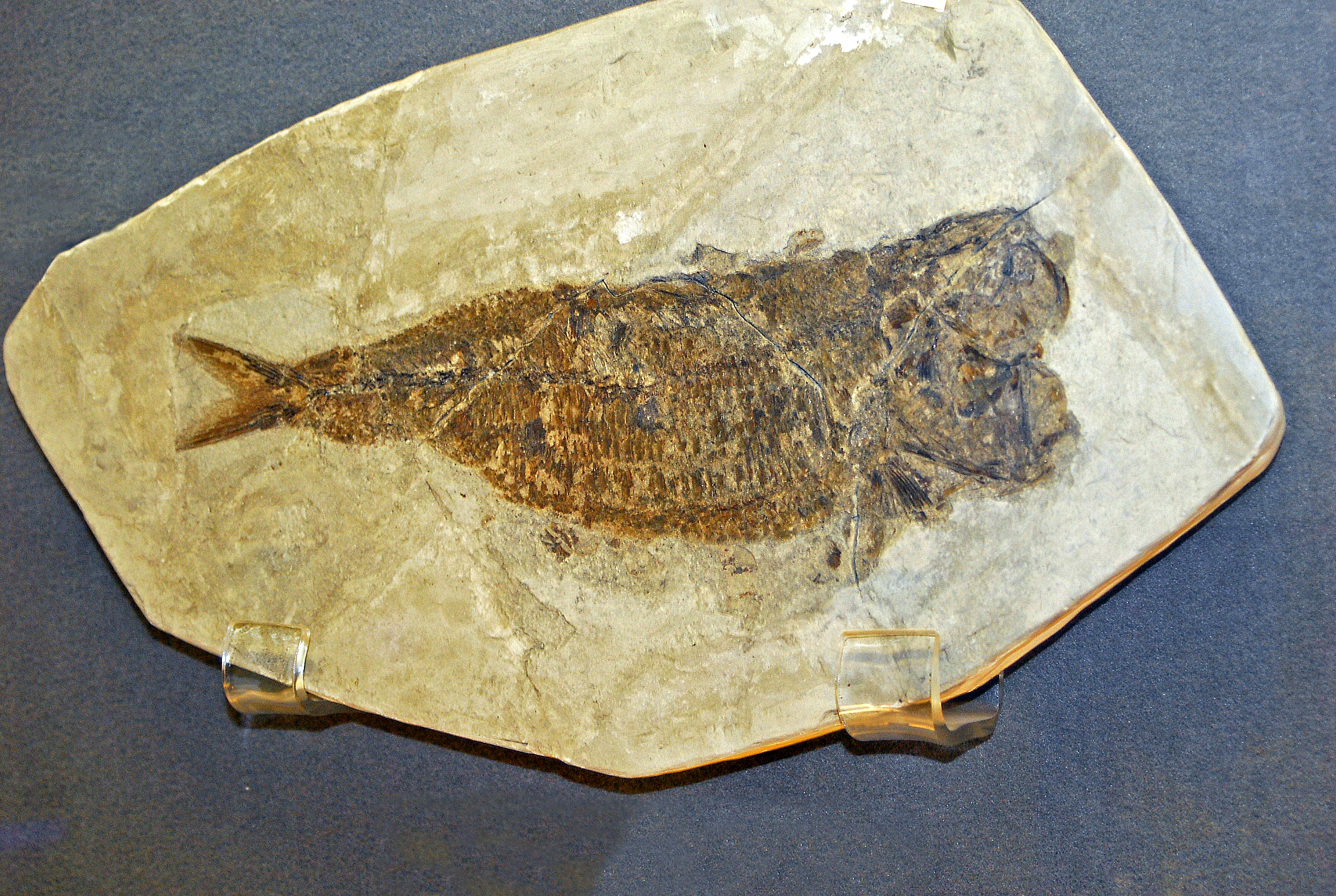 Fossil of Alosa elongata, on display at the Museo Archeologico e di Scienze Naturali F. Eusebio - Alba, Italy (Cuneo - abt 11-6.5 ma)